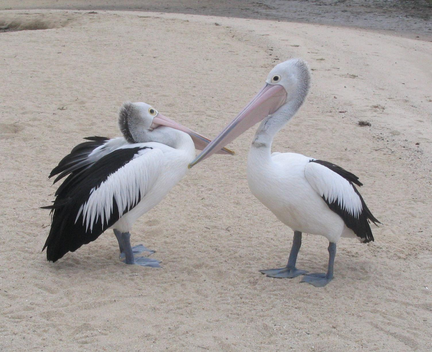 Australian pelican in Cairns. Photograph by Muriel Gottrop.